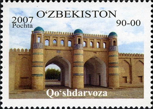 Stamps of Uzbekistan, 2007